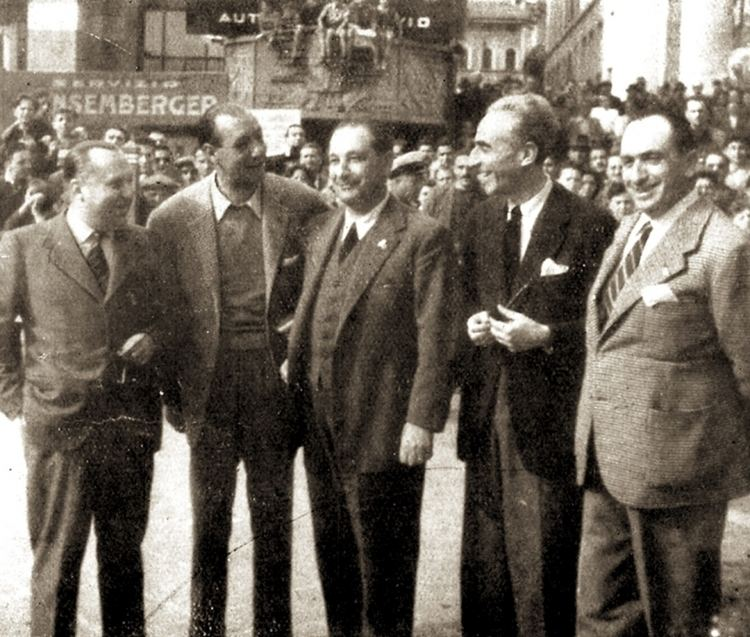 Piazza della Vittoria in Brescia (in back: The Leonessa d'Italia monument). We see the organizers of the XV 1000 Miglia on 2 May 1948. From left: Giulio Binda, cousin of Franco Mazzotti (Binda represented the Mazzotti family since Franco's death in 1943), Aymo Maggi, Filippo Tassara (President of Automobil Club di Brescia), Giovanni Canestrini and Renzo Castagneto.[2]